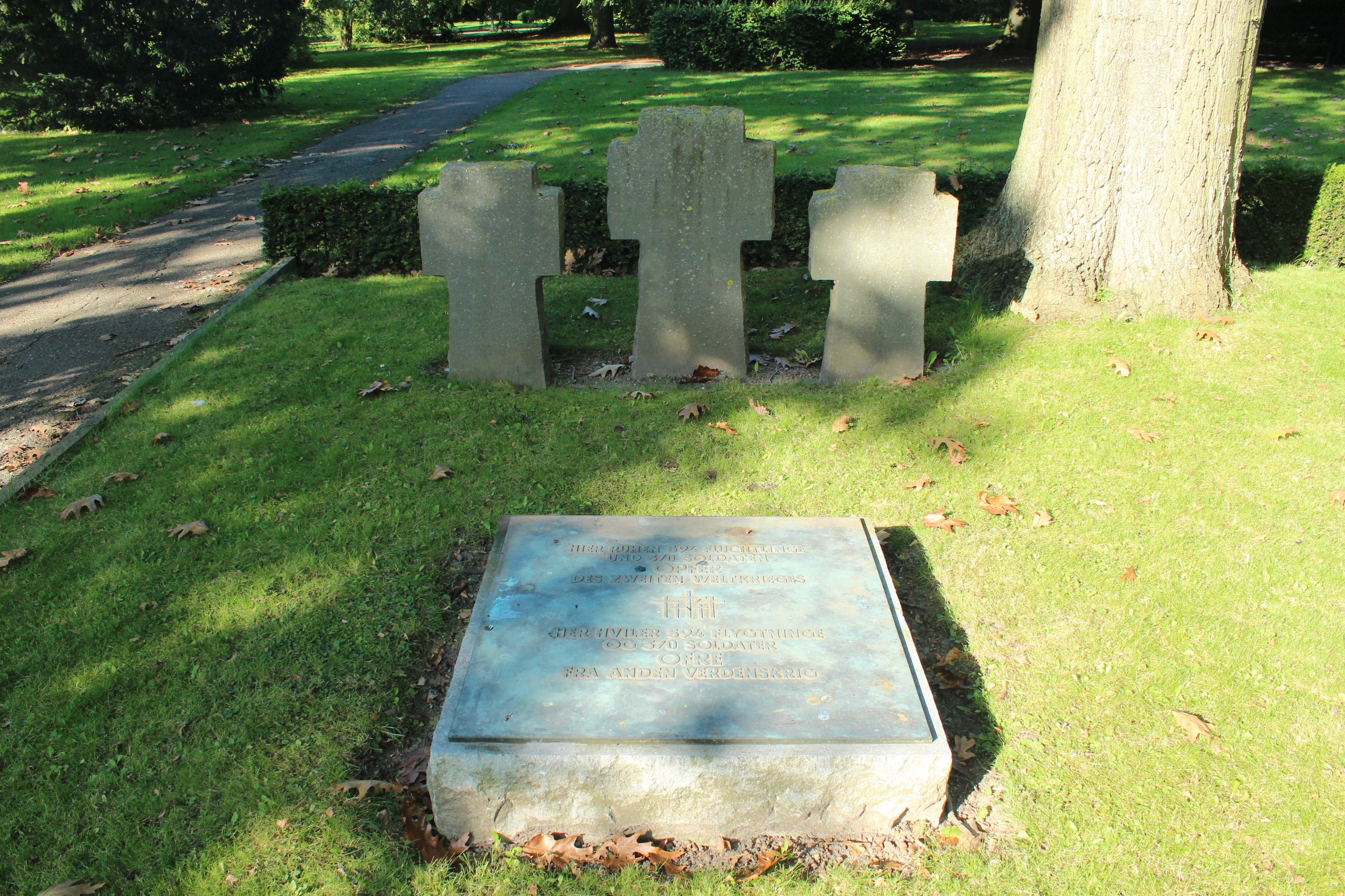 Graves of German soldier from WW2 at Bispebjerg cemetary